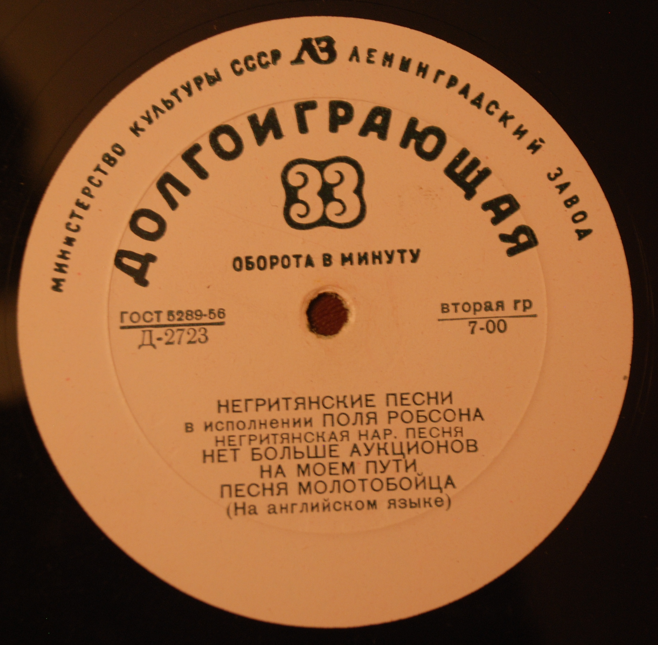 Paul Robeson record Negro Songs published by Soviet Ministry of Culture in 1950's